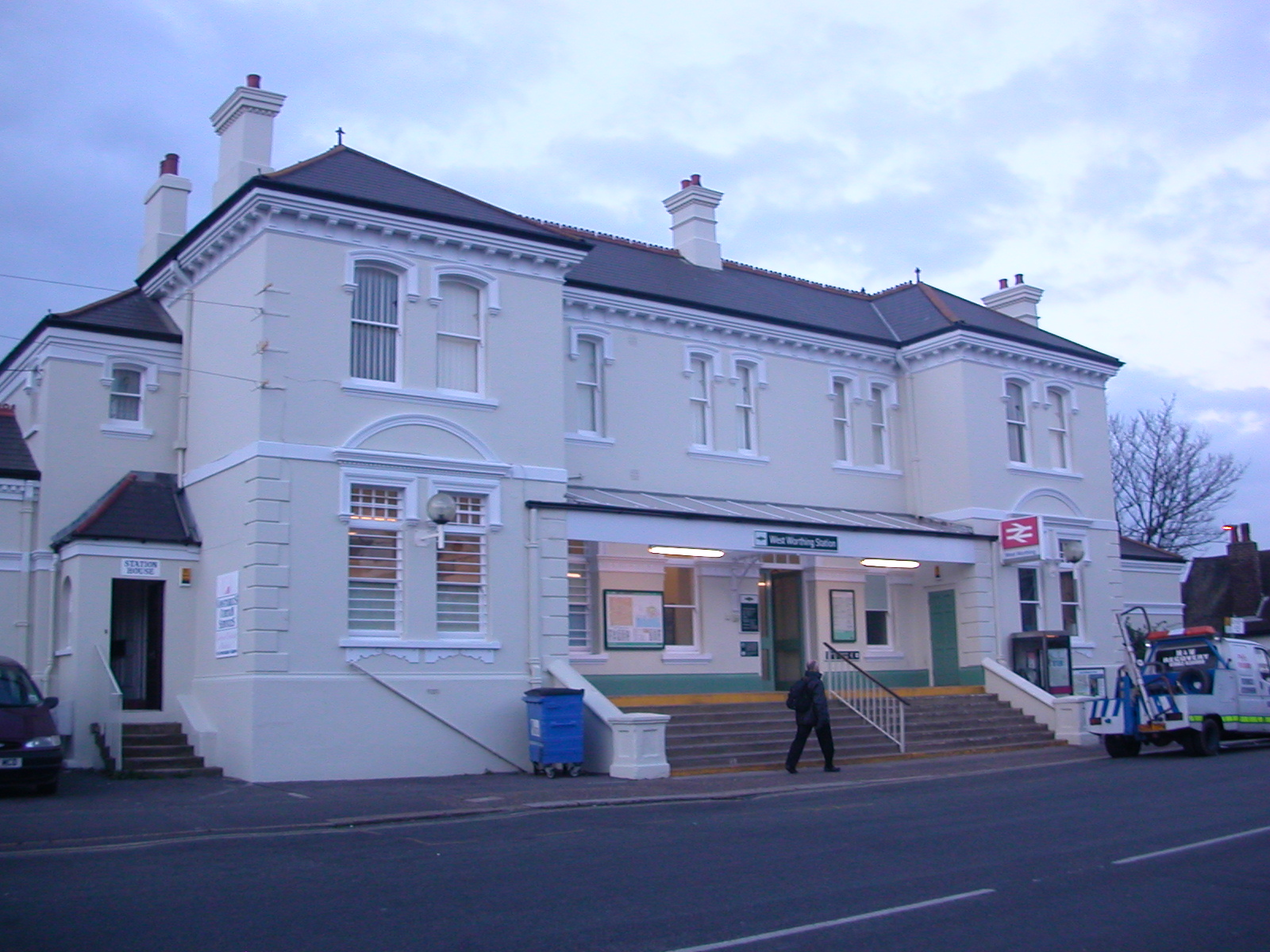 Main station building at West Worthing. Photographed on 15th March 2007.